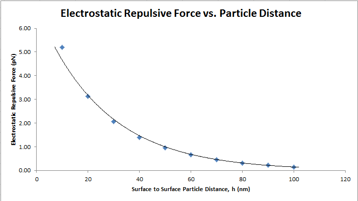 Electrostatic repulsive force vs. distance for polyelectrolytes with correction